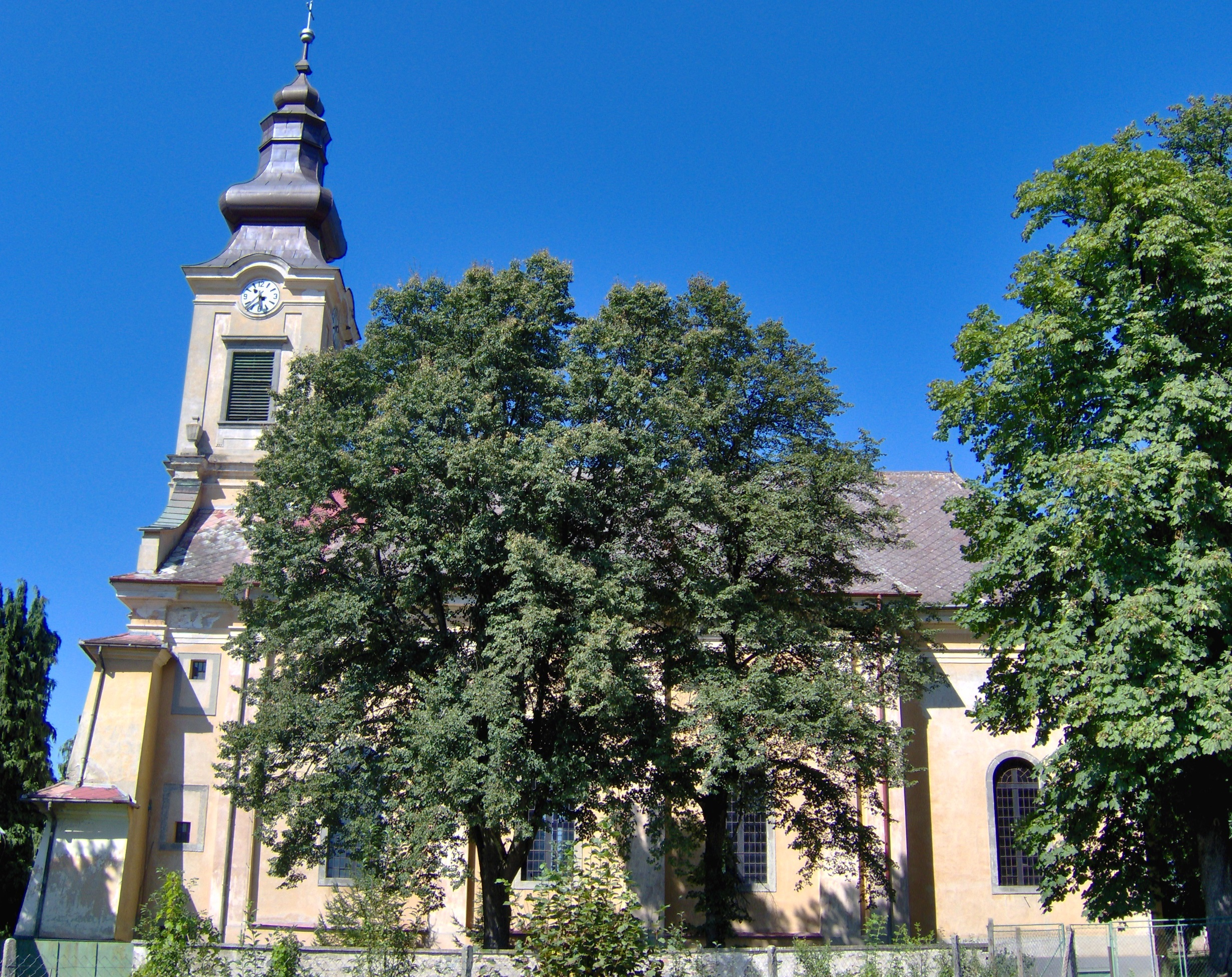 Church in Dolné Rykynčice, (part of Rykynčice) Slovakia, from 1788 File:Rykynčice-church-portal-1788.jpg